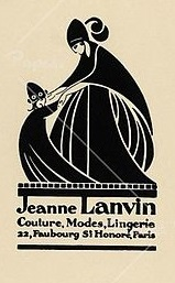 Lanvin logo designed by Paul Iribe, 1907